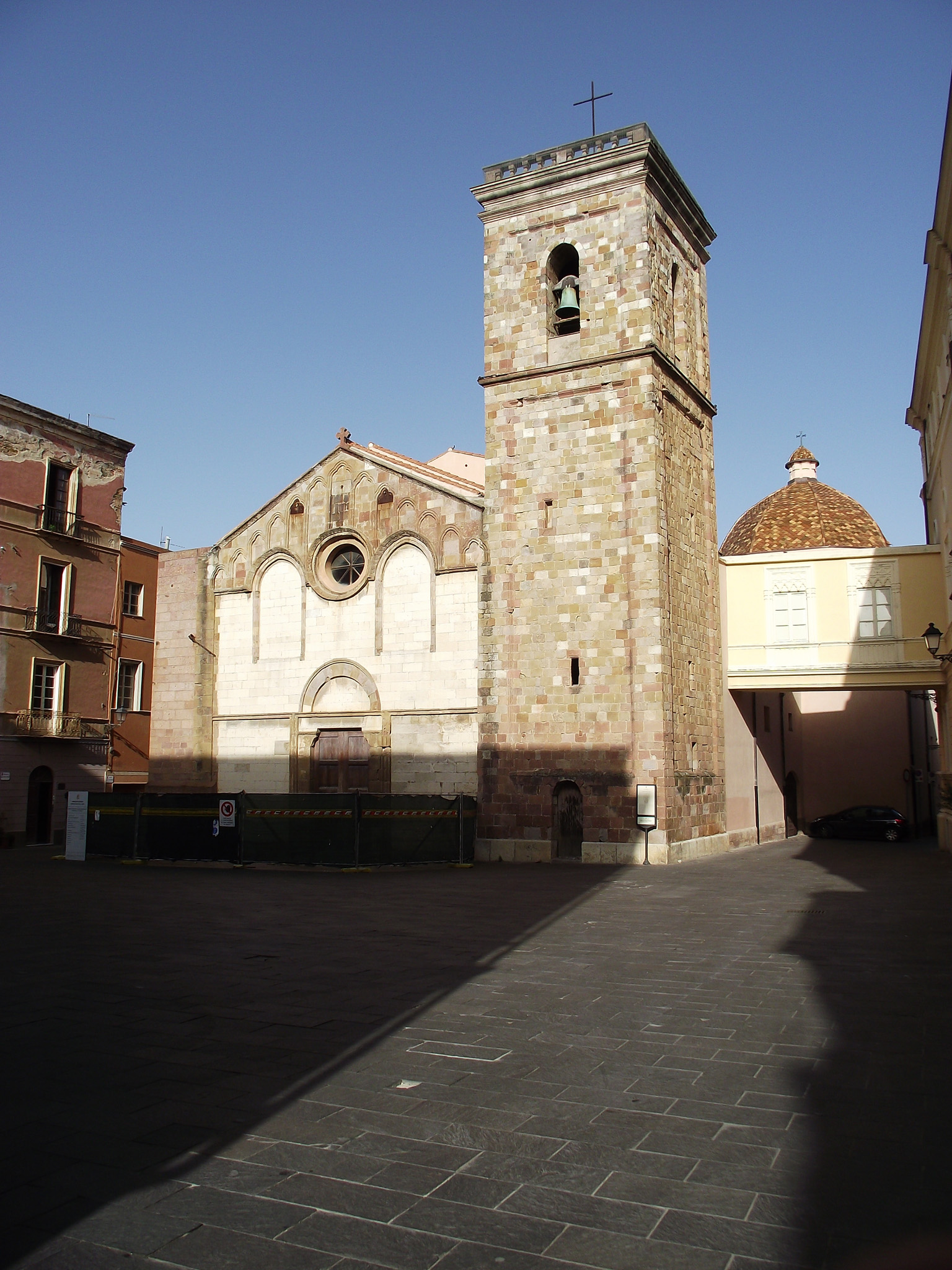 Front view of Santa Chiara cathedral in Iglesias, Sardinia, Italy